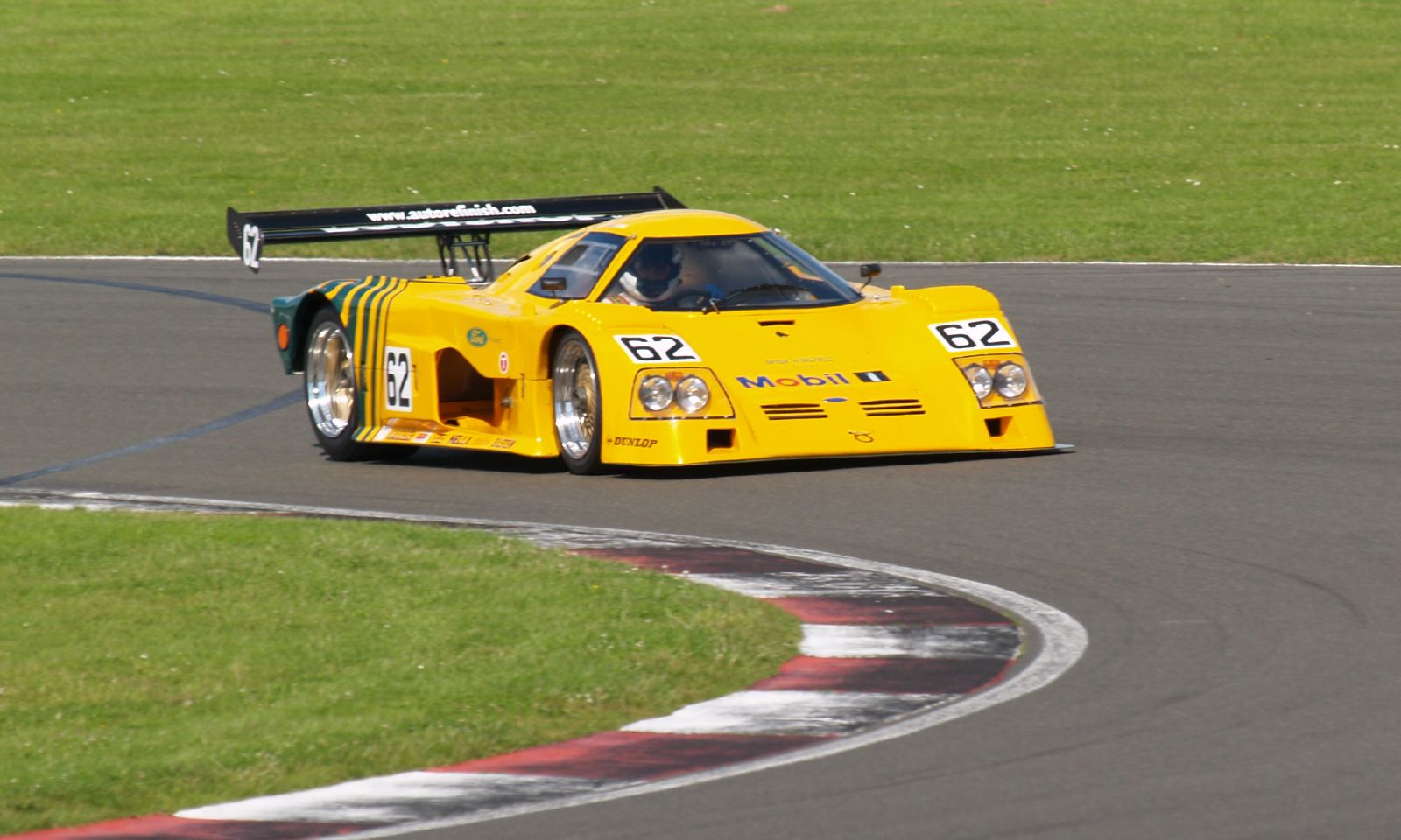 A Ford (Zakspeed) C100 at the Silverstone Classic